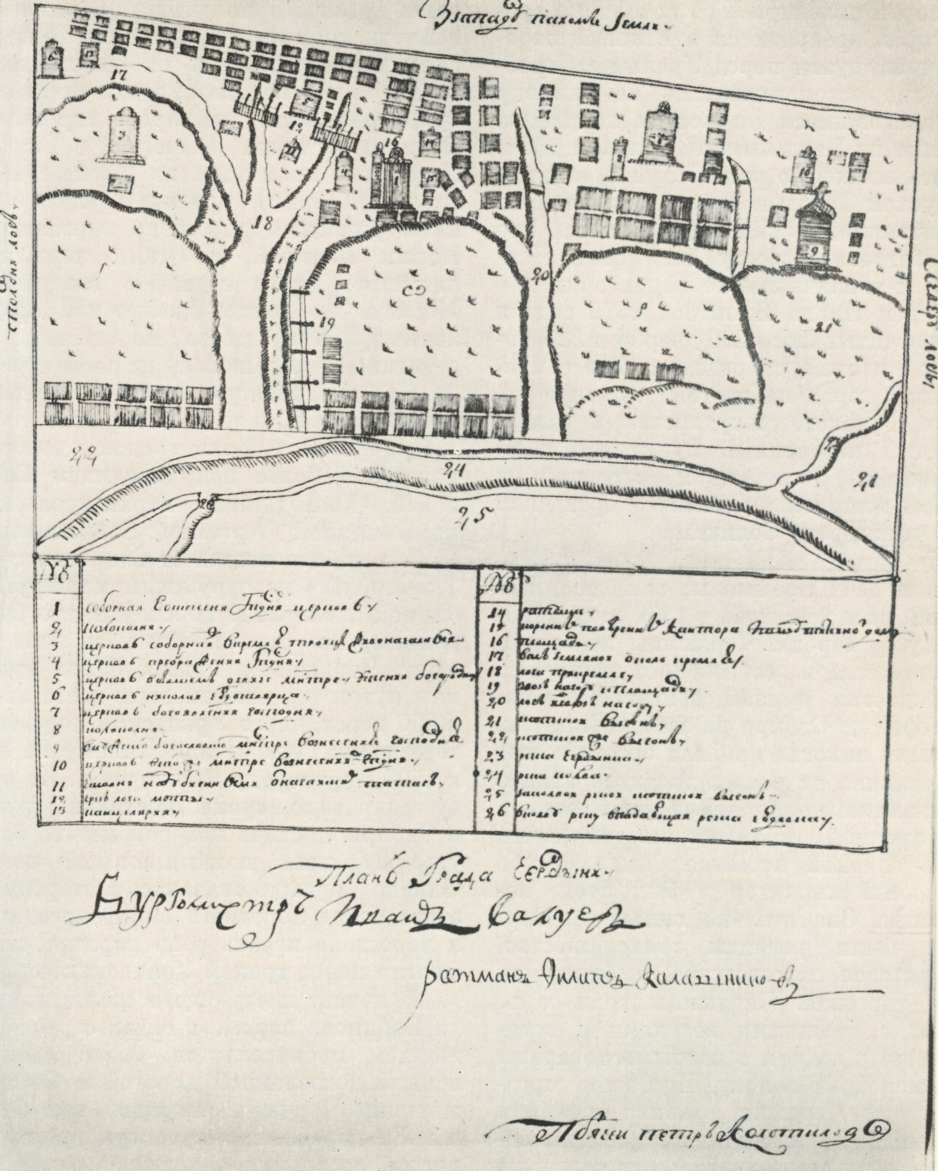 Plan of Cherdyn in the beginning of 18th century